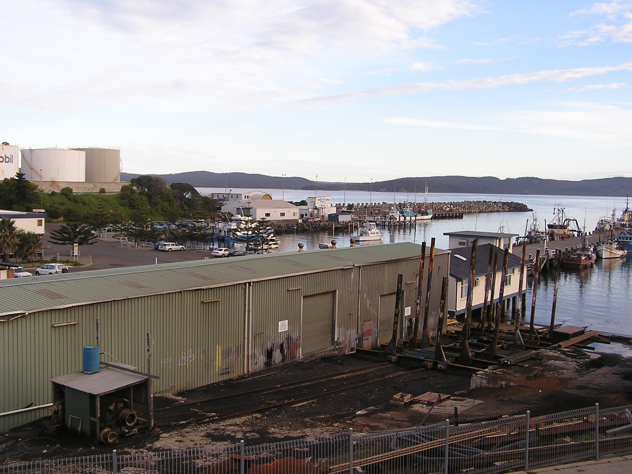 Port of Eden, New South Wales, Australia